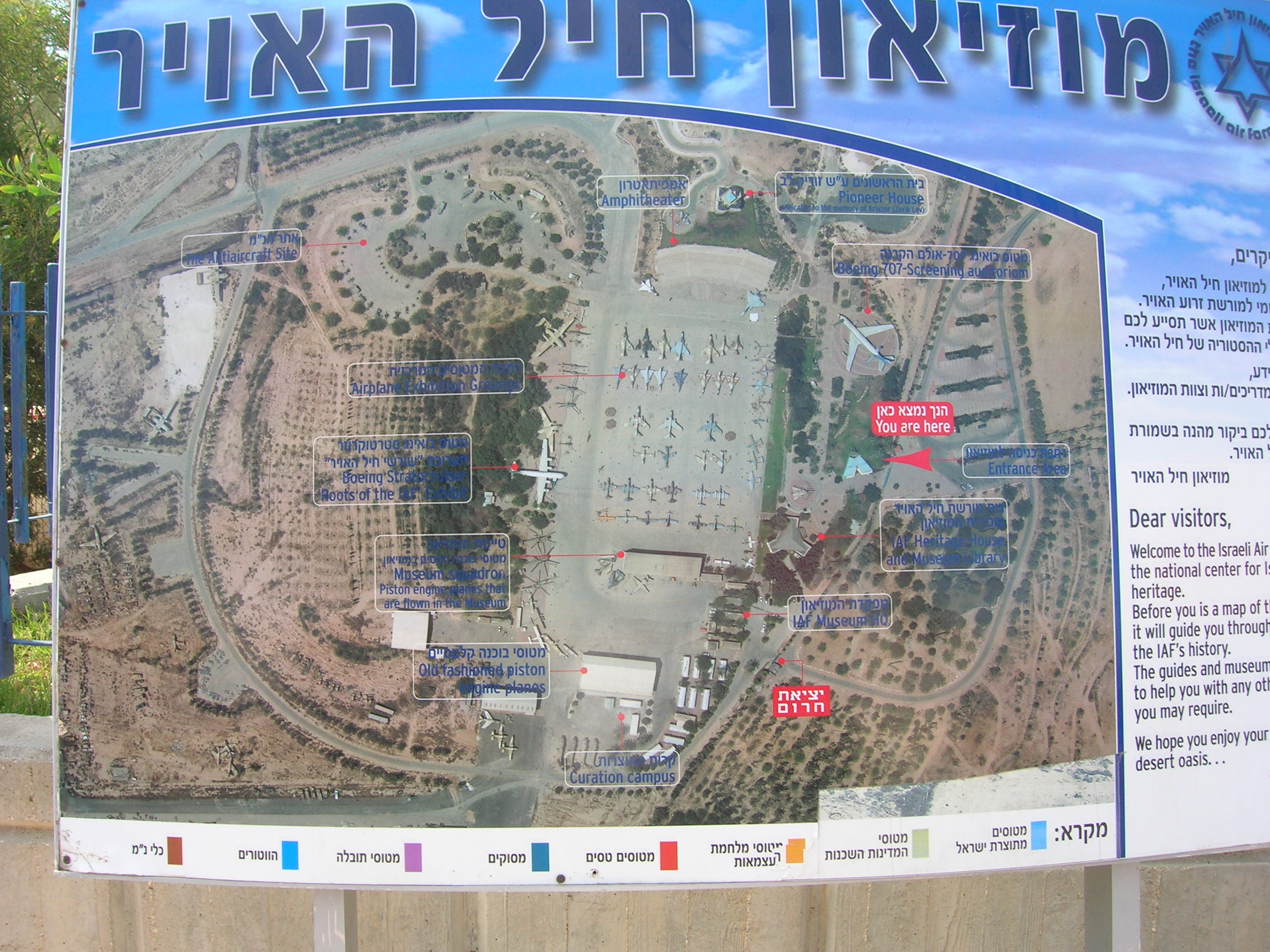 The Israeli Air Force Museum (מוזיאון חיל האוויר) is located at Hatserim Israeli Air Force Base, Israel.